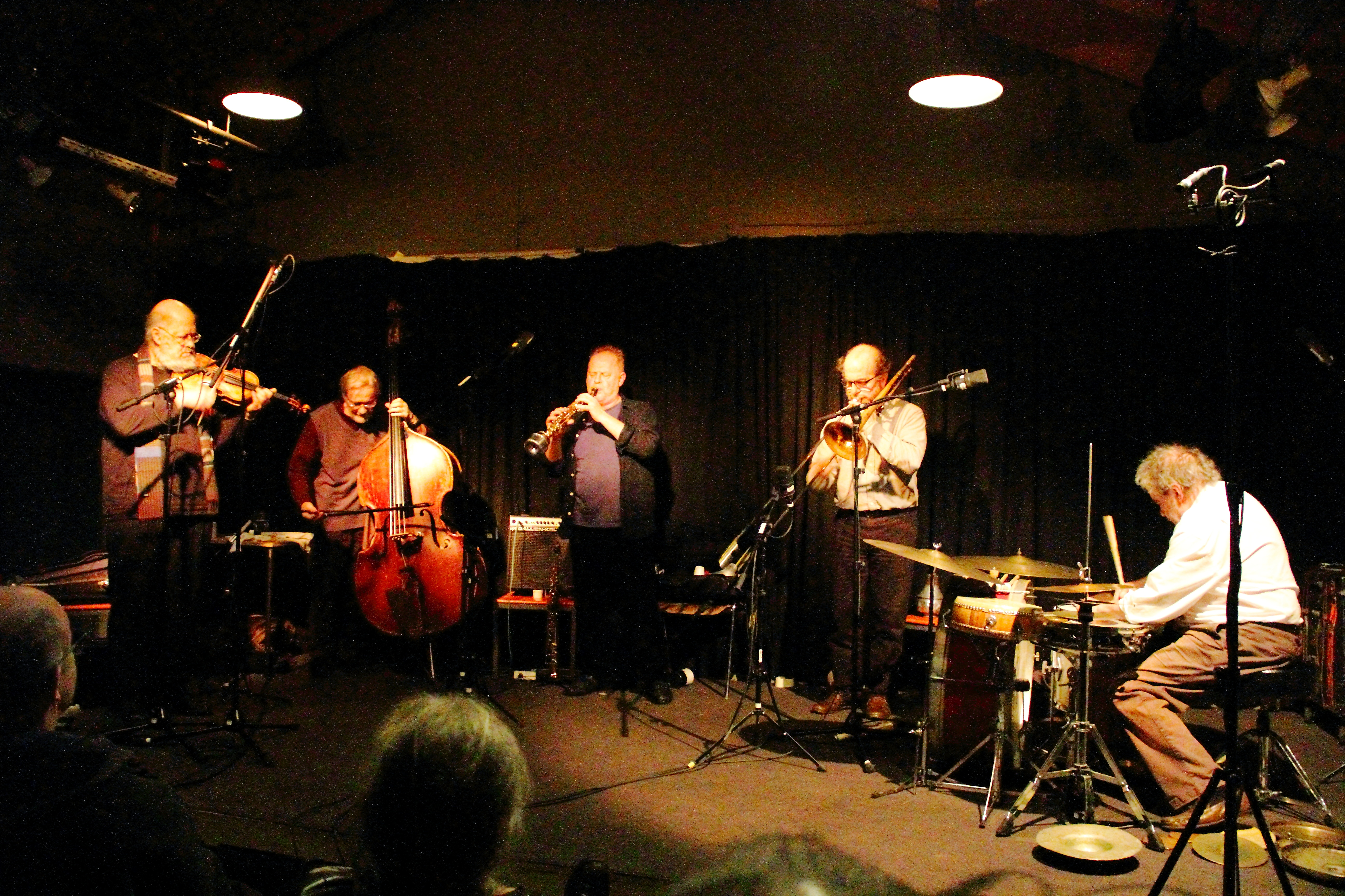 Quintet Moderne at Club W71, Weikersheim. Quintet Moderne are Teppo Hauta-Aho (db), Paul Lovens (dr), Harry Sjöström (sax), Sebi Tramontana (tb) und Phil Wachsmann (violin).